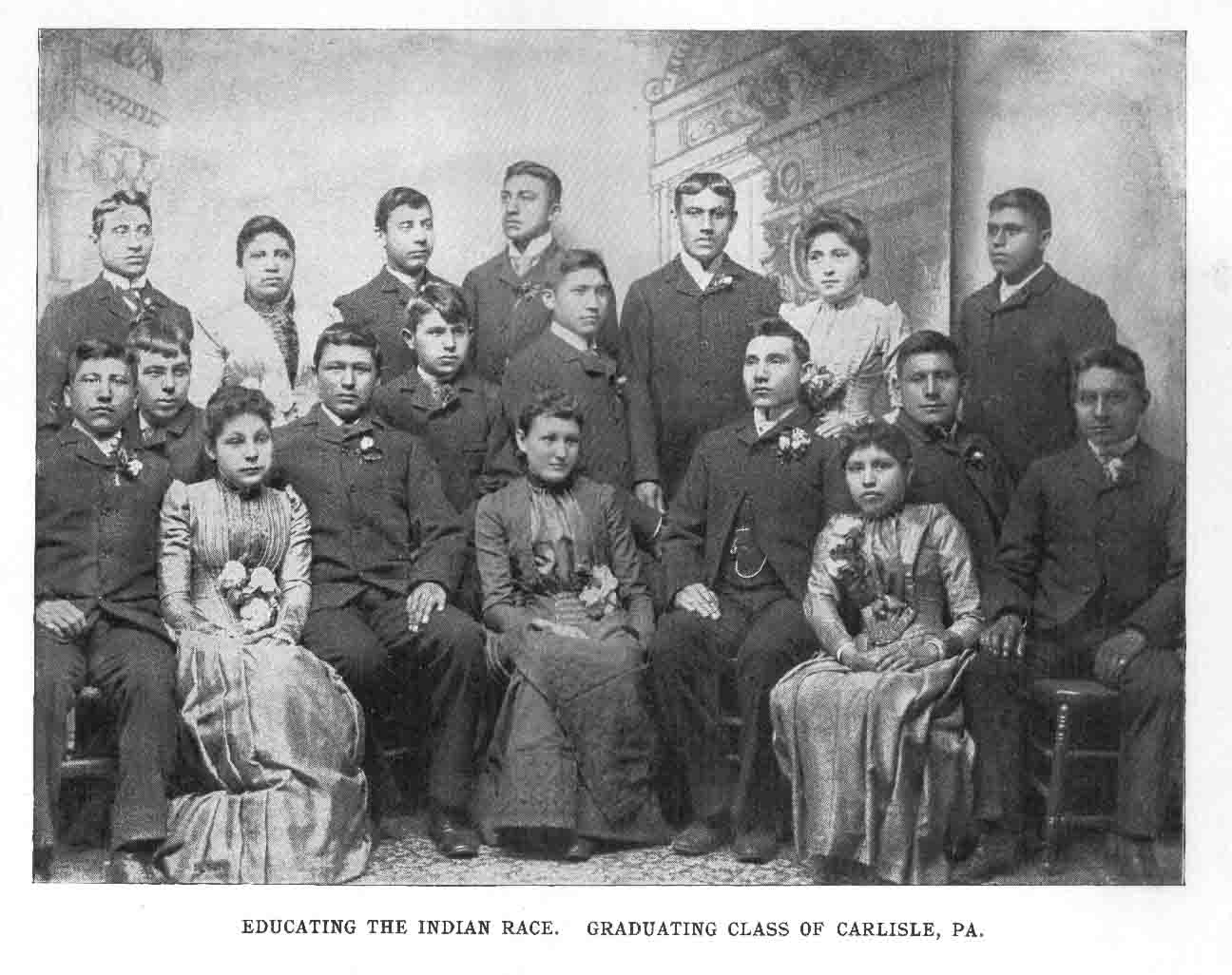 A photo of graduates of the Carlisle Boarding School, all Native Americans. The caption says "Educating the Indian Race. Graduating Class of Carlisle, PA."